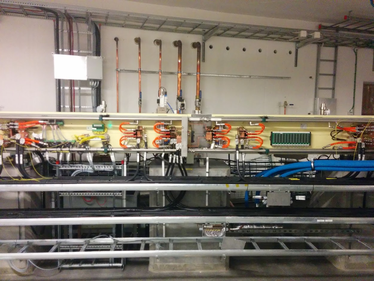 Inside of the 1.5 GeV MAX IV storage ring